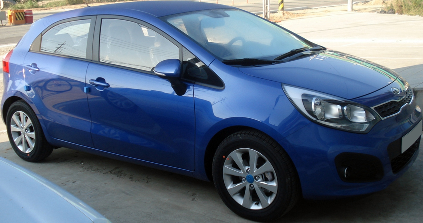 Kia All New Pride